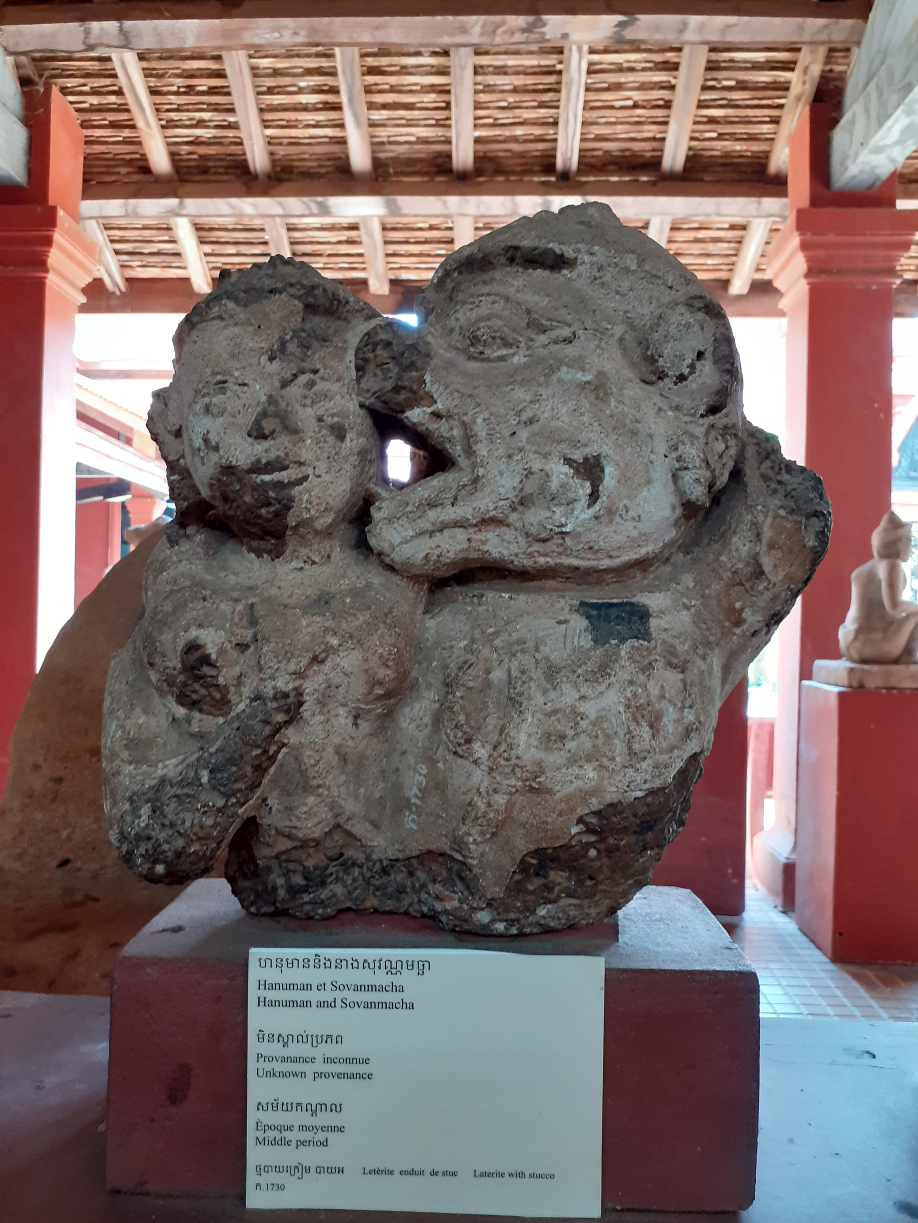 Cambodian depiction of Hanuman flirting Sovan Maccha. Middle Period. Phnom Penh National Museum